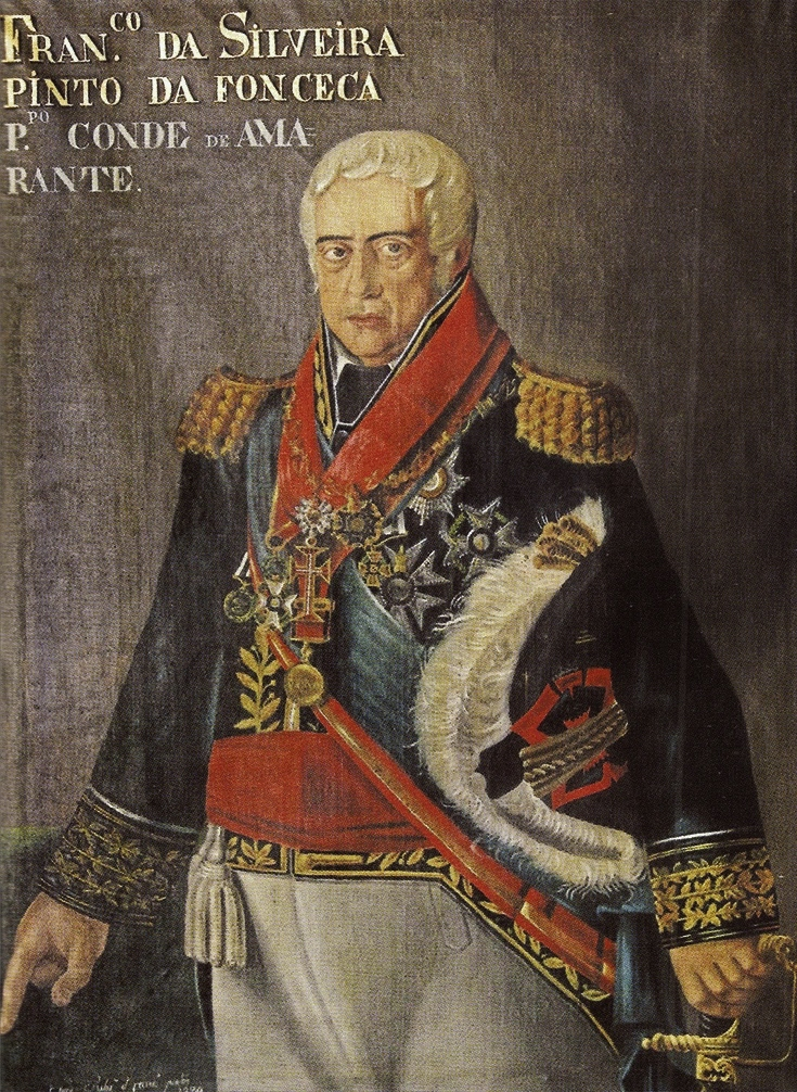 19th-century portrait of 1st Count of Amarante, Portuguese general during the Peninsular War.